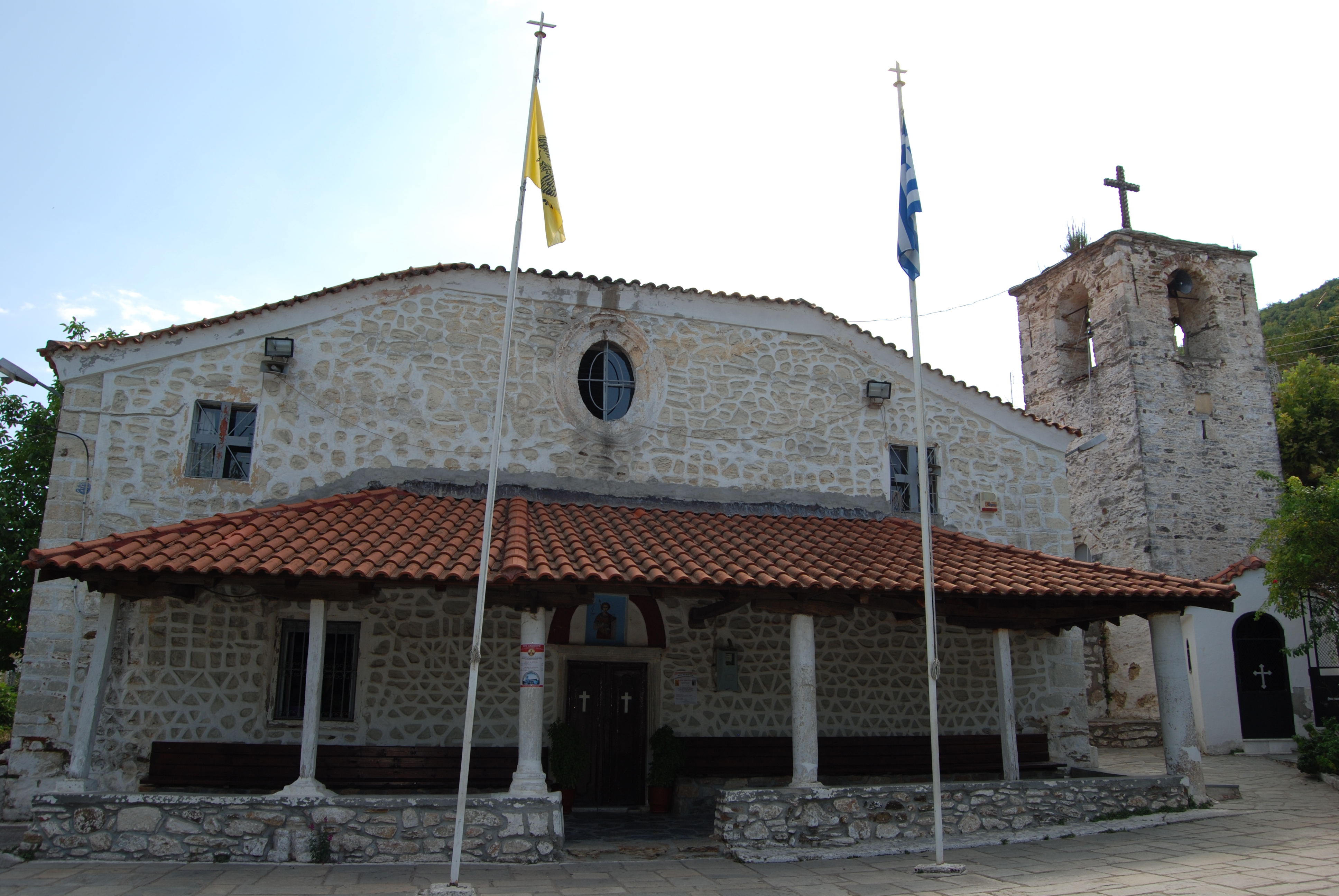 St. Georgios Hortach